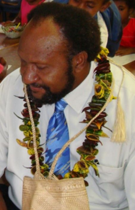 Cropped photo of ni-Vanuatu politician Charlot Salwai meeting with the Australian Parliamentary Secretary for Pacific Island Affairs in October 2010